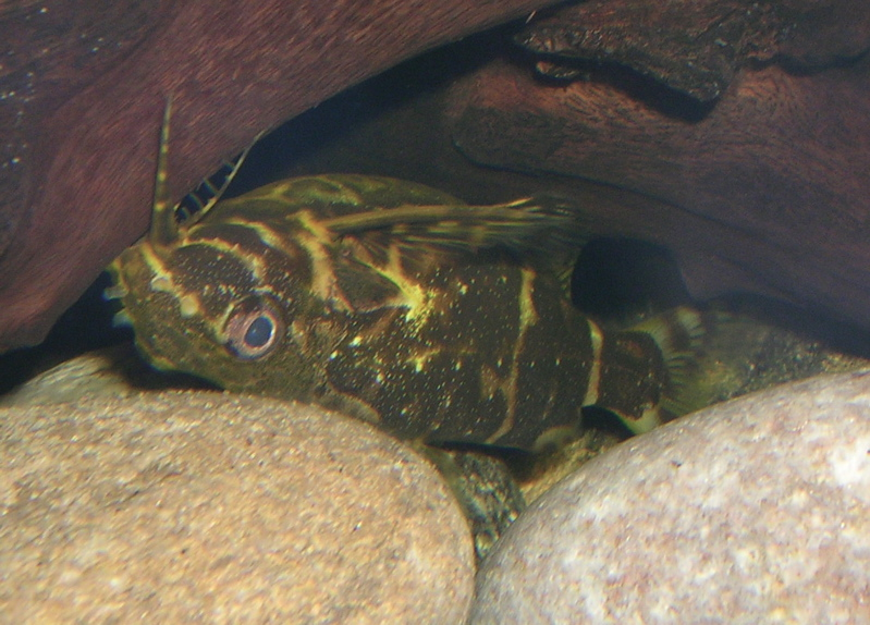 Upside-down catfish, Synodontis nigroventris, in a home aquarium. The specimen is an adult about 8 cm long. It is here observed in its normal upside-down orientation.